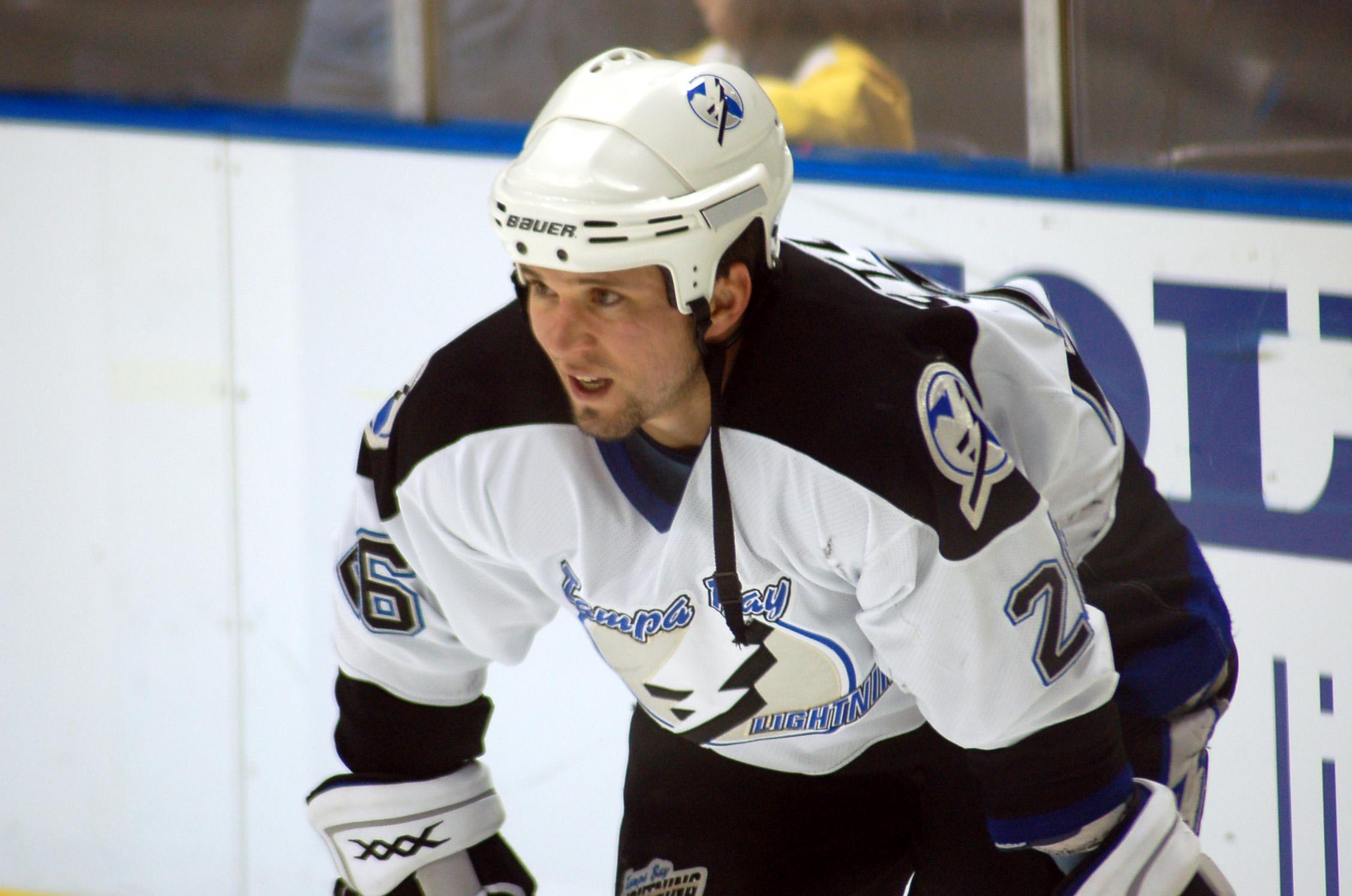 Canadian ice hockey player Martin St Louis